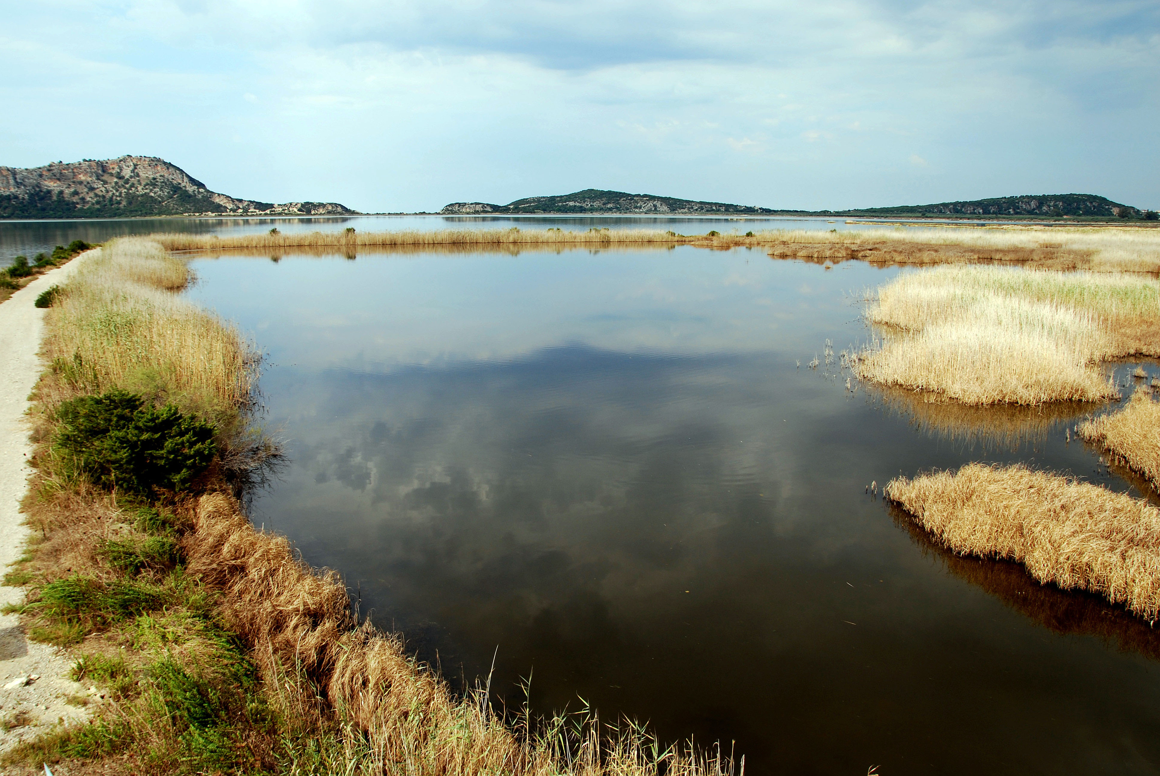 This is a photography of Natura 2000 protected area with ID GR2550008